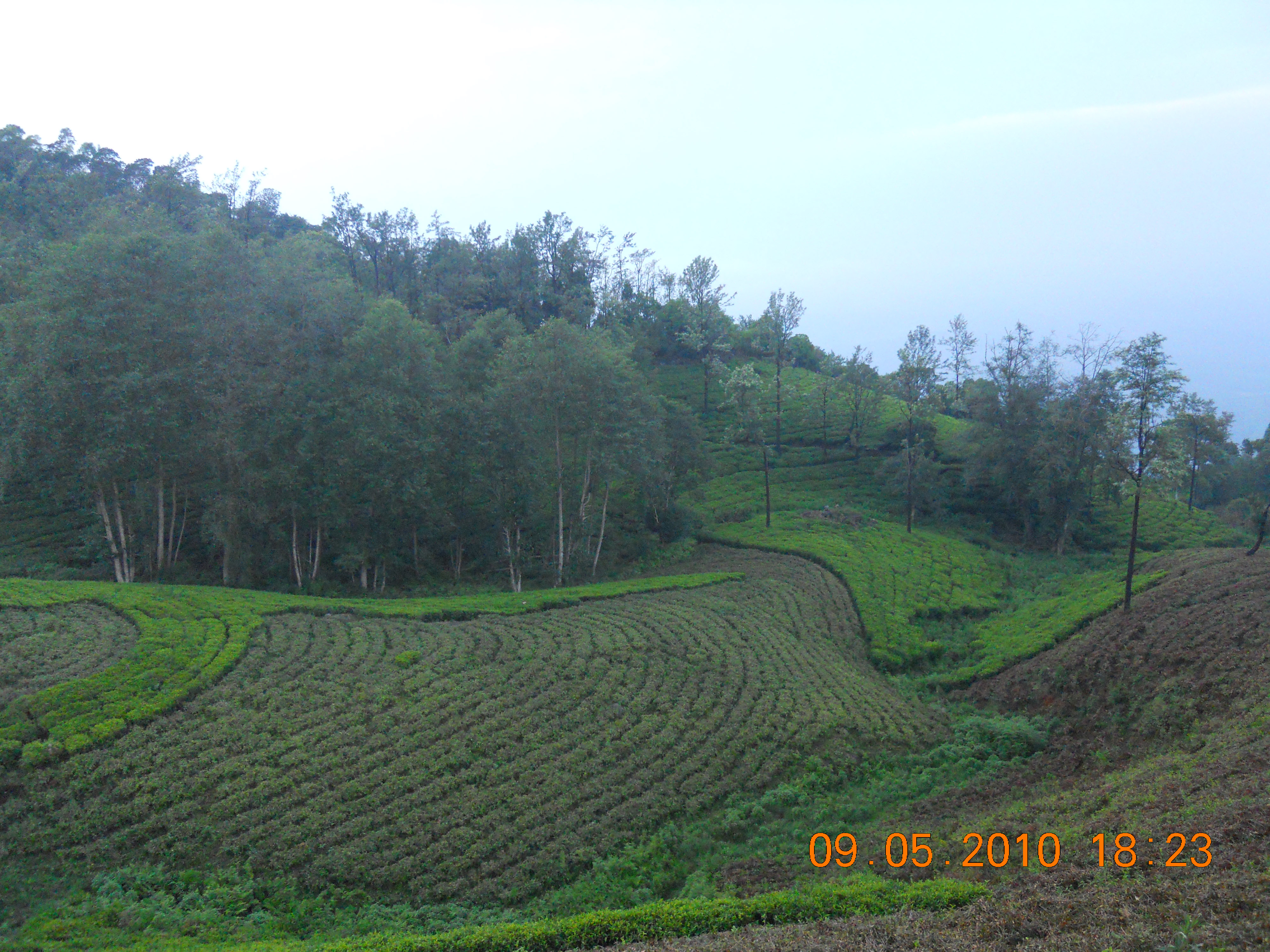 Gudalur